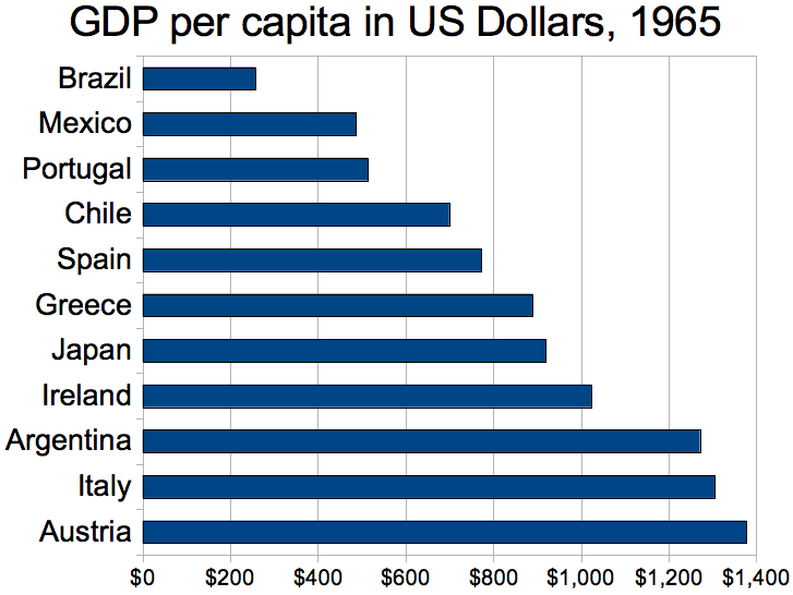 GDP per capita in US Dollars, 1965, comparing Austria, Italy, Argentina, Ireland, Japan, Greece, Spain, Chile, Portugal, Mexico, Brazil. Data from The World Bank.